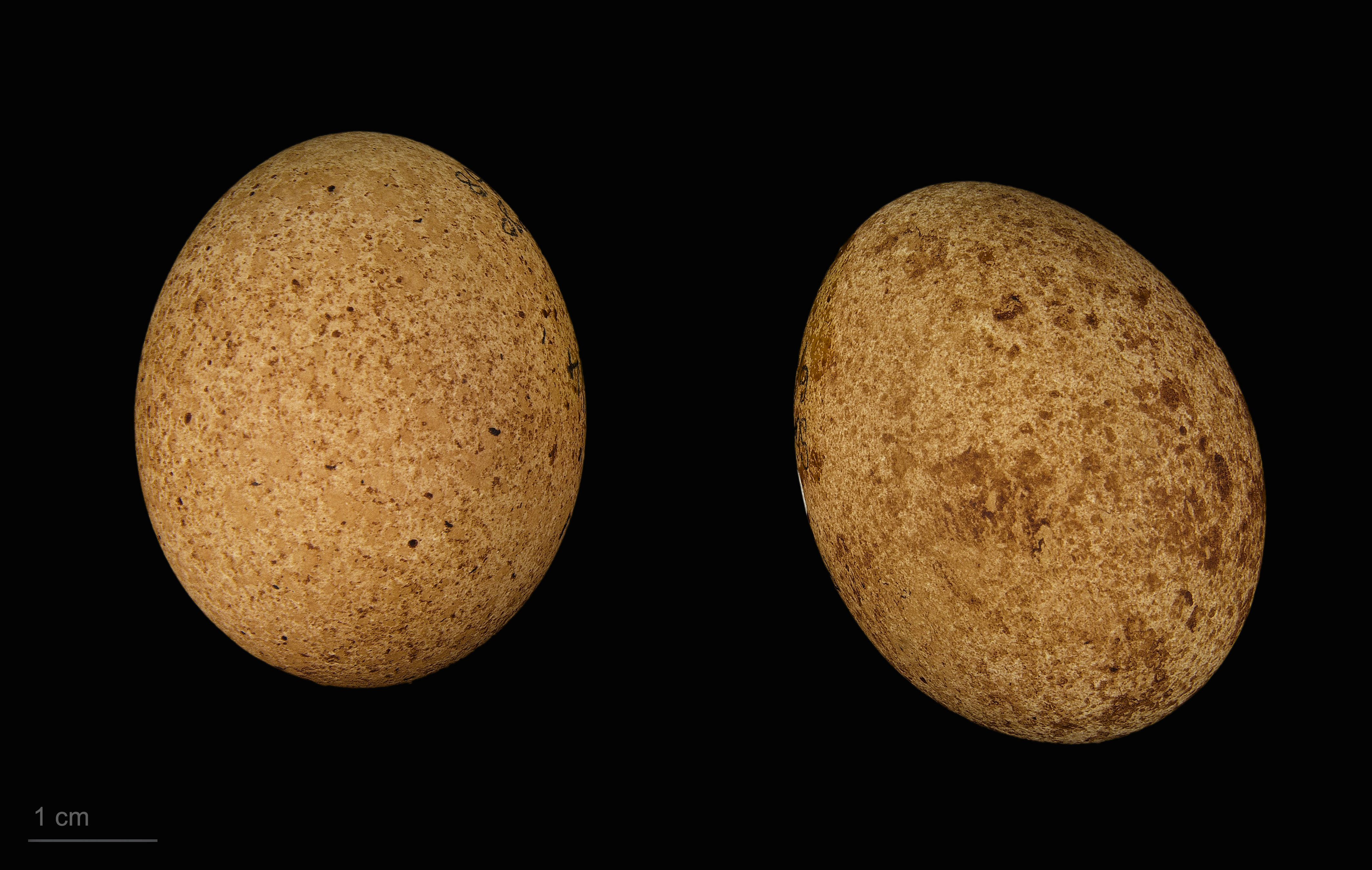 Eggs of Falco tinnunculus alexandri Two specimens of the same spawn ; collection of Jacques Perrin de Brichambaut.